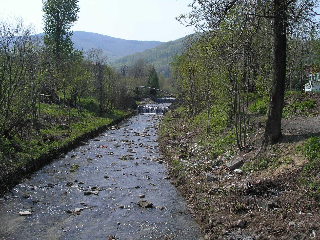 River Biała, Poland